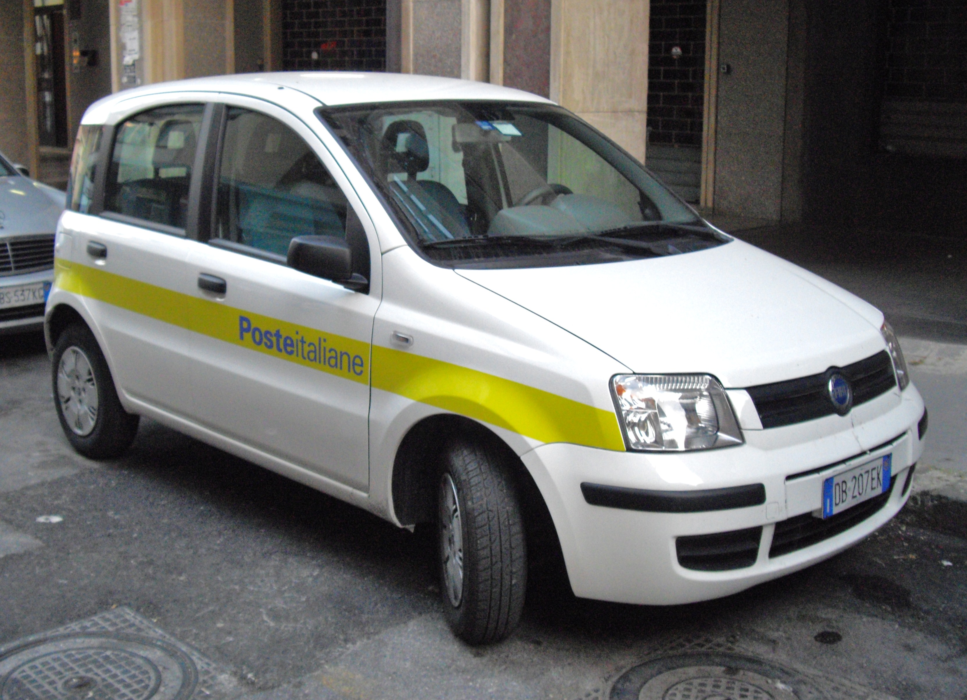 Fiat Panda Poste Italiane